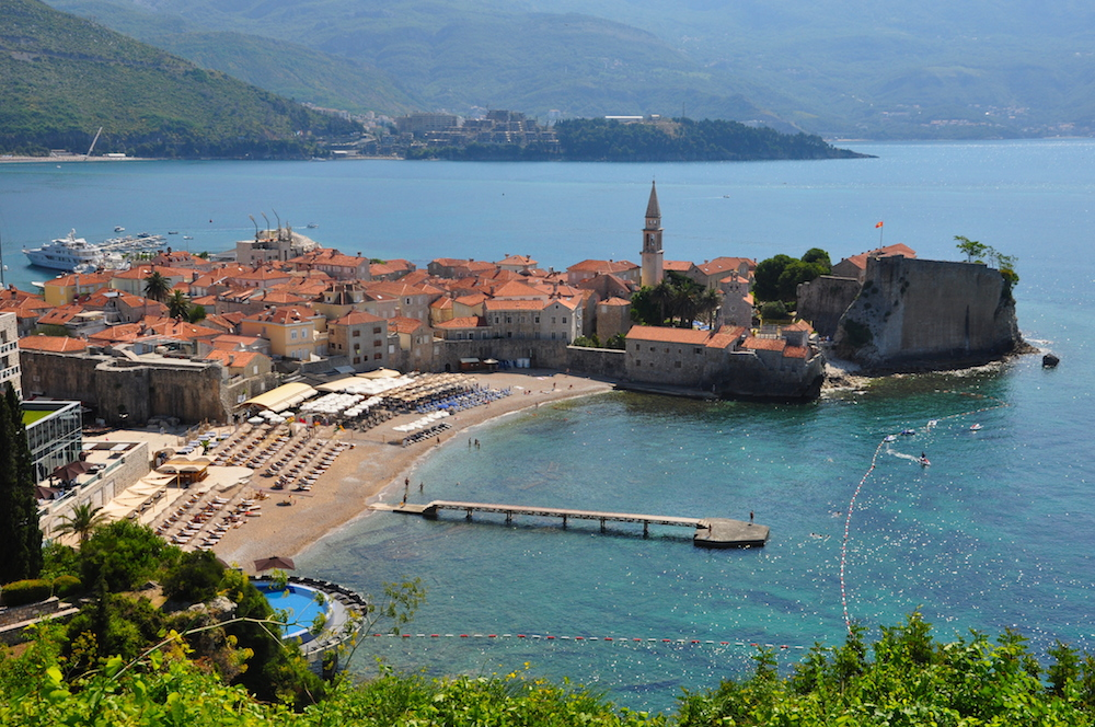 We had great local cab driver in Montenegro who took us to visit a couple of spots off the usual tourist route. This is an old town near Dubrovnik called Budva. Isn't it charming? Three cheers for the Adriatic coast!